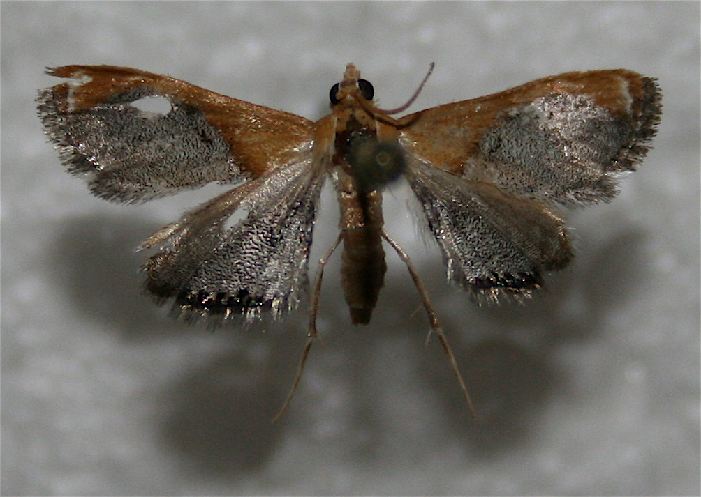 Sooty-winged chalcoela (Chalcoela iphitalis) caught in Portage, Michigan, USA.